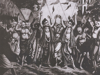 The incarnation of love who previously was the queen of Vrindavan, Radha, is now the beloved of Gaura named Srila Gadadhara Pandit. Svarupa Damodar himself indicated that he was Vrajas goddess of fortune, the Lakshmi who was previously the beloved of Shyamasundara in Vrindavan. She today has become the goddess of fortune of love for Gaura and is known as Srila Gadadhara Pandit. Lalita, who is also known as Anuradha, is Radhas closest friend and confidante. She has also entered into Gadadhara, as was shown in the play Chaitanya-candrodaya. (Gaura-ganoddesha-dipika 147-150)